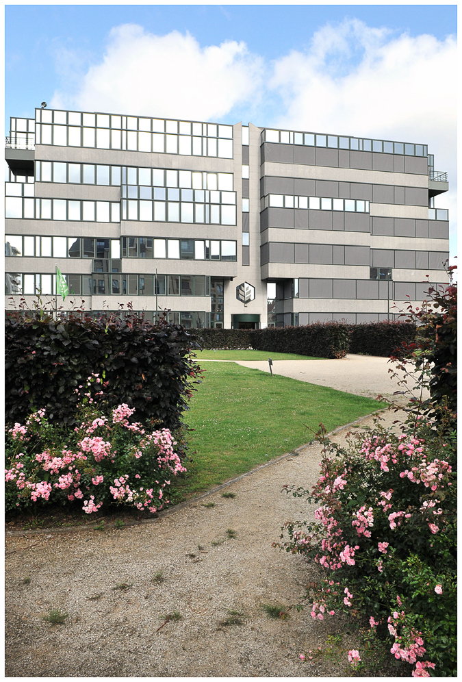 Headquarters Landbouwkrediet